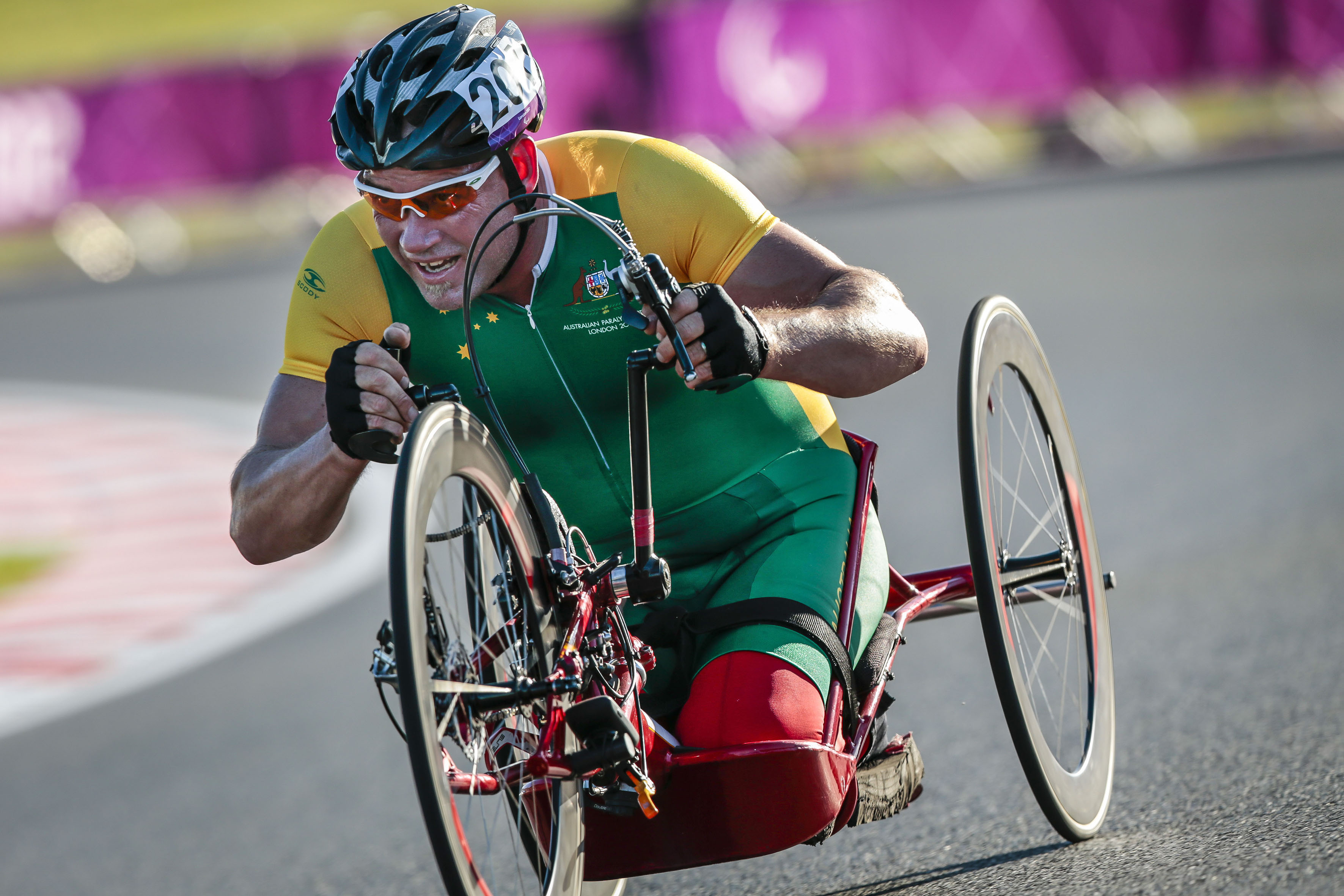 Photograph of Australian Paralympic team member Stuart Tripp at the 2012 Summer Paralympic Games in London